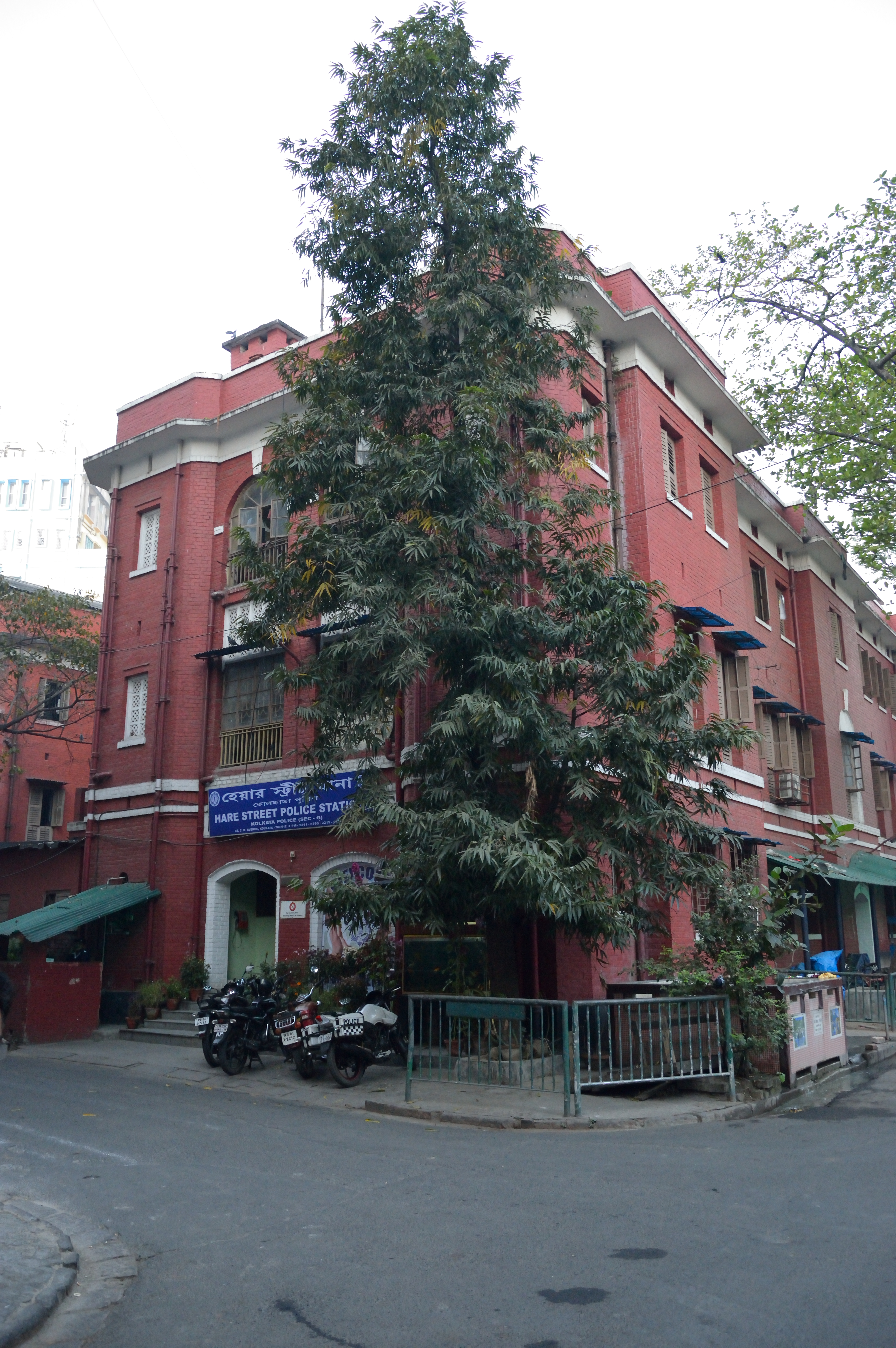 This photograph has been taken during the 'Wikipedia/Wikimedia Photowalk' event for the 'Wikipedia Takes Kolkata II' campaign on 3 March 2013, in Kolkata.